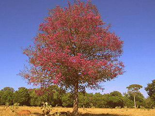 Rosewood is a member of the plant family Lauraceae, also known as:-mulatinho rosewood, rosewood-itaúba and rosewood-imbaúba.